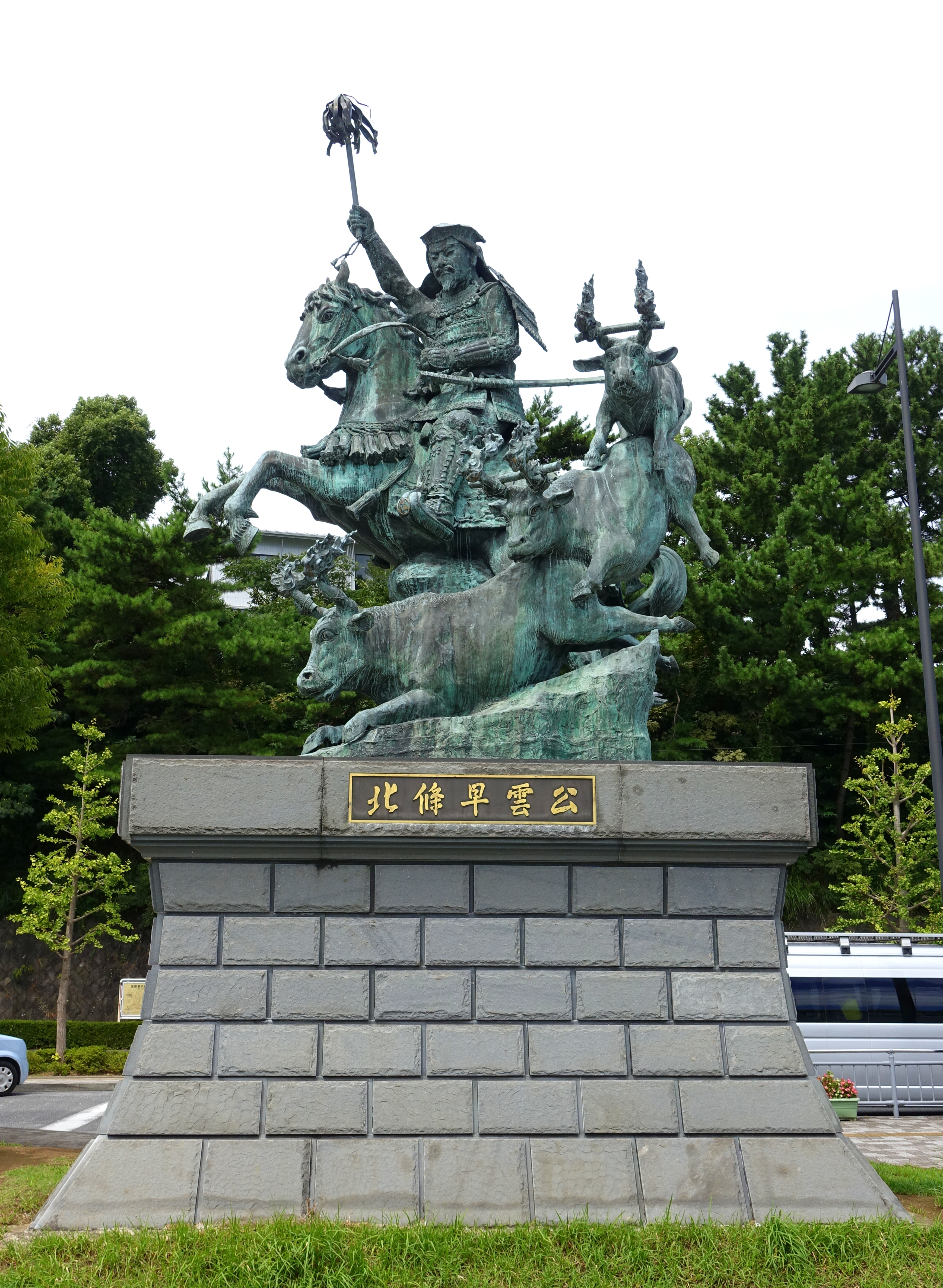 Hōjō Sōun memorial (北條早雲公像) - Odawara, Kanagawa, Japan.